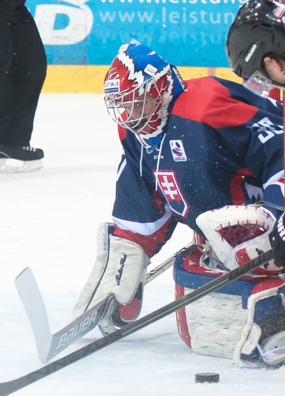 Slovakian goalkeeper Denis godla during Euro Ice Hockey Challenge Vienna, February 7, 2015, Austria vs. Slovakia